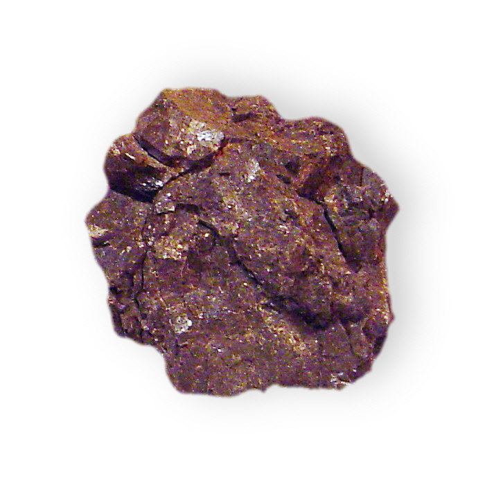 These mineral images are free to use how you wish.